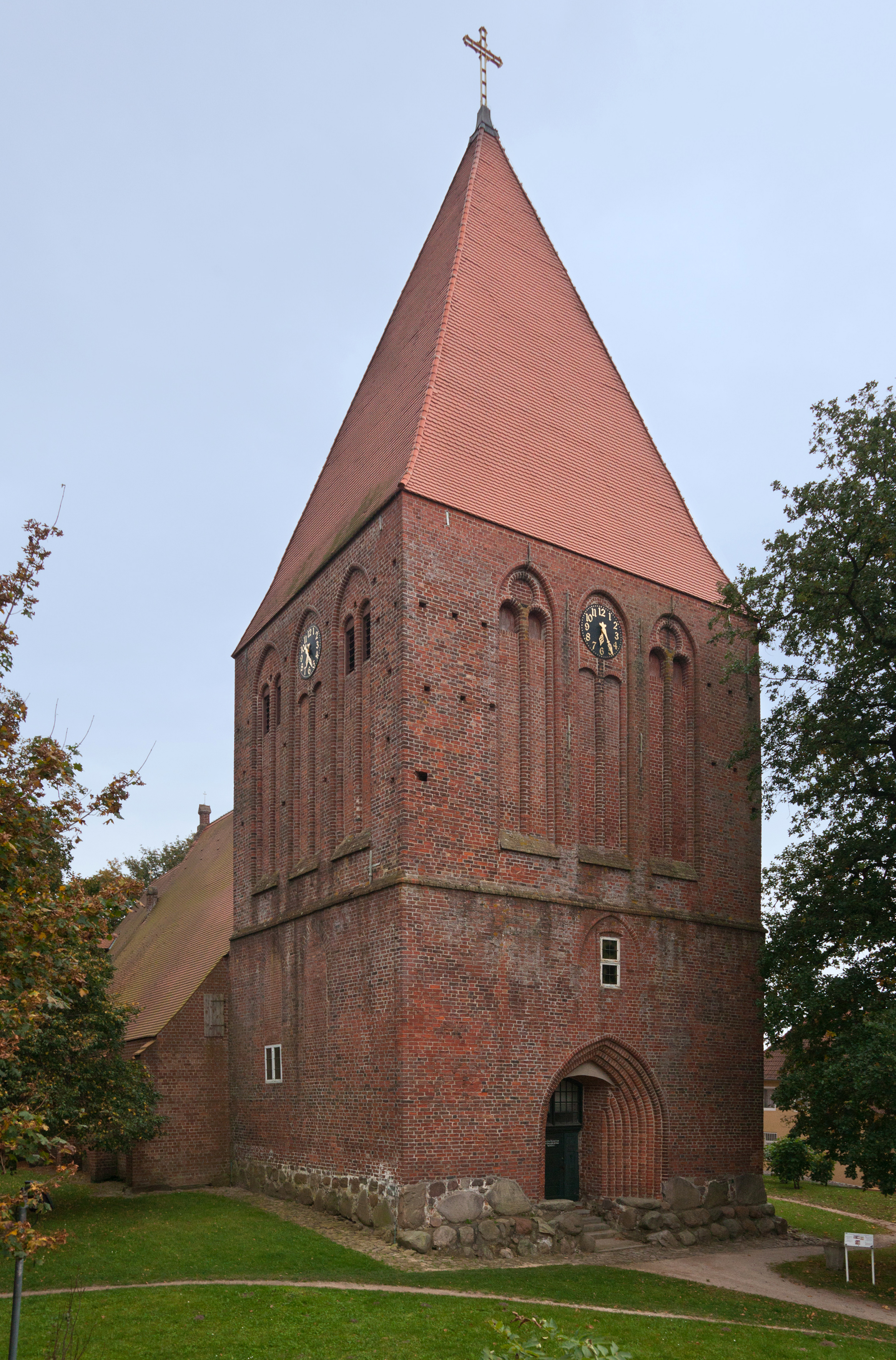 Sagard, church St. Michael